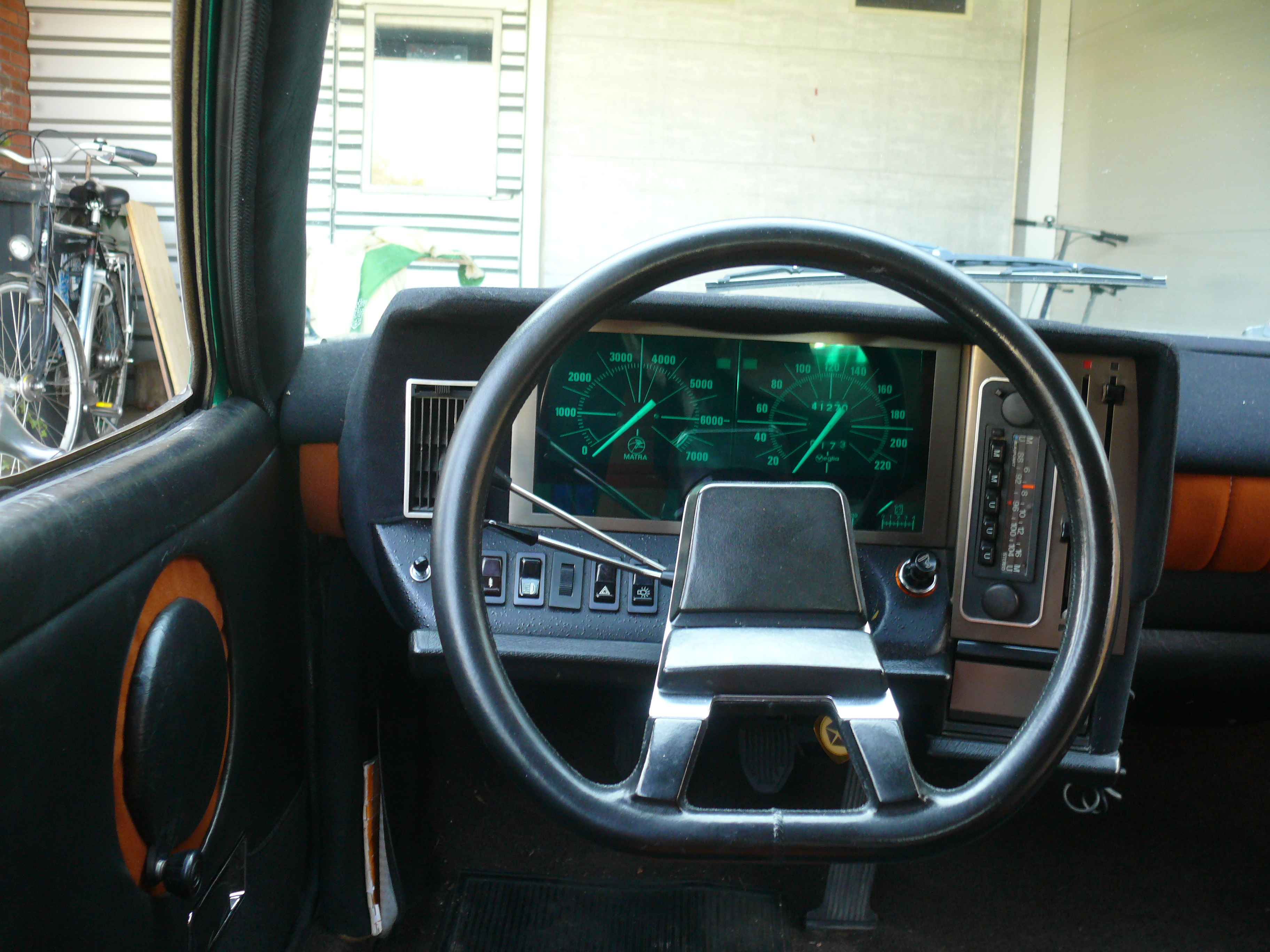 Dashboard and steering wheel, flattened at the bottom, of a Series 1 Matra-Simca Bagheera.